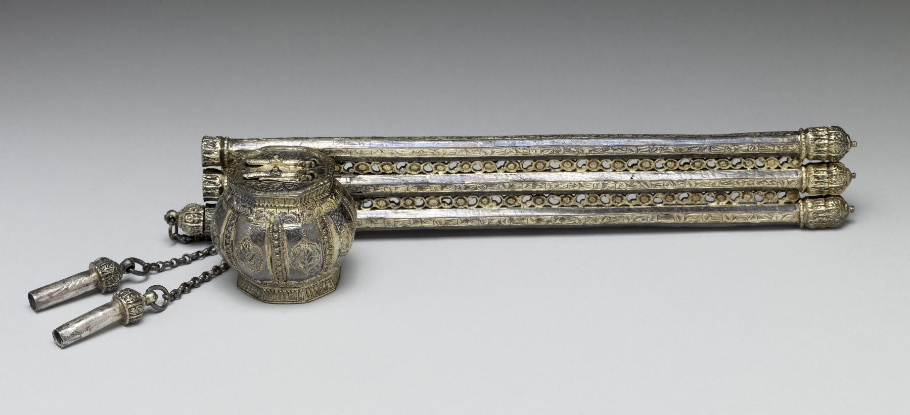 The central role of writing in Islamic societies led to calligraphy becoming the most important visual art form. Portable pen cases (Turkish: divit) were made with great care and became objects of art themselves. Examples from the Ottoman lands are characterized by pronounced end pieces with an inkwell and a tubular arm that held the pens. Such pieces were often hinged and had a metal loop for attachment to a belt. This parallels the belt-attachable design of the Japanese yatate (found elsewhere in this room). The yatate and divit elevated pen cases to the status of wearable works of art.